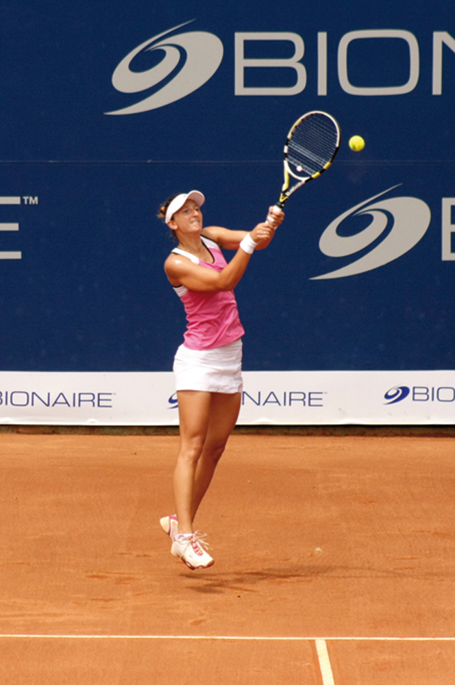 Romanian, Irina-Camelia Begu, lifted both singles and doubles champion trophies in 2011 Copa Bionaire 2011.